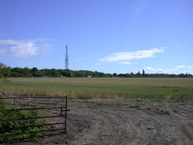 Wheat field with view of Madingley transmitter